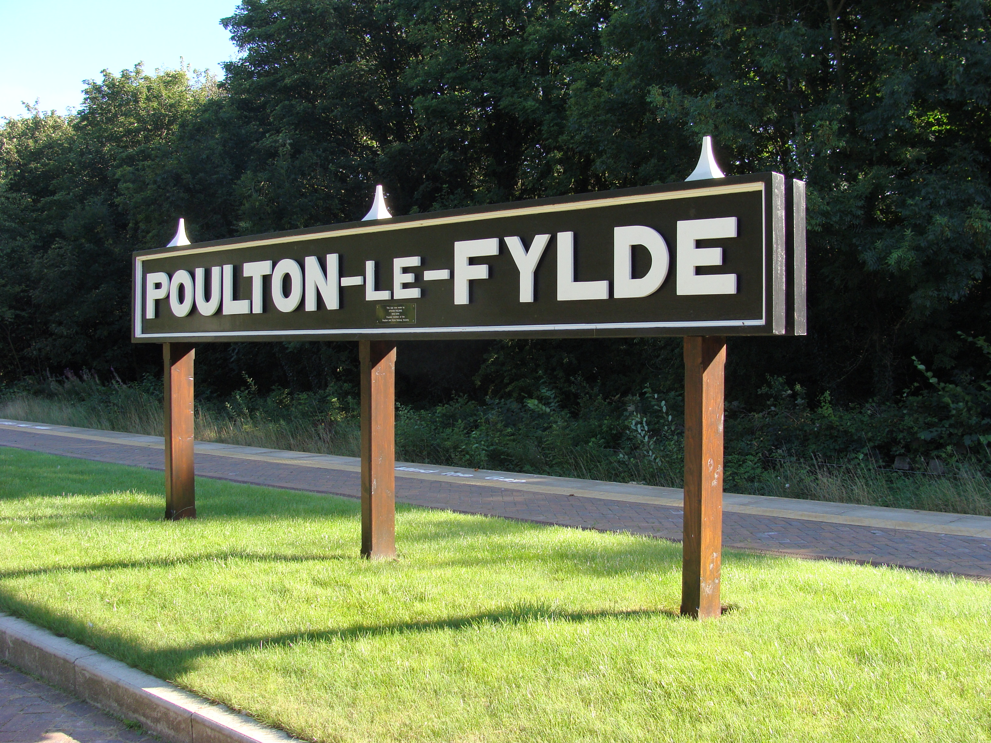 A sign installed by the Poulton & Wyre Railway Society at Poulton-le-Fylde station in traditional Lancashire & Yorkshire Railway design